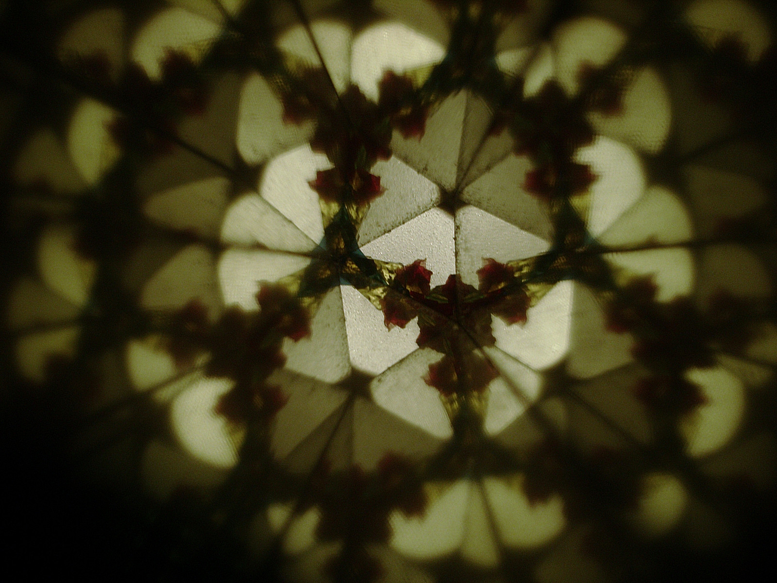 A kaleidoscopic pattern made using a simple toy kaleidoscope tube. Picture taken by myself 2005-07-20 --Rnbc 00:21, July 21, 2005 (UTC)